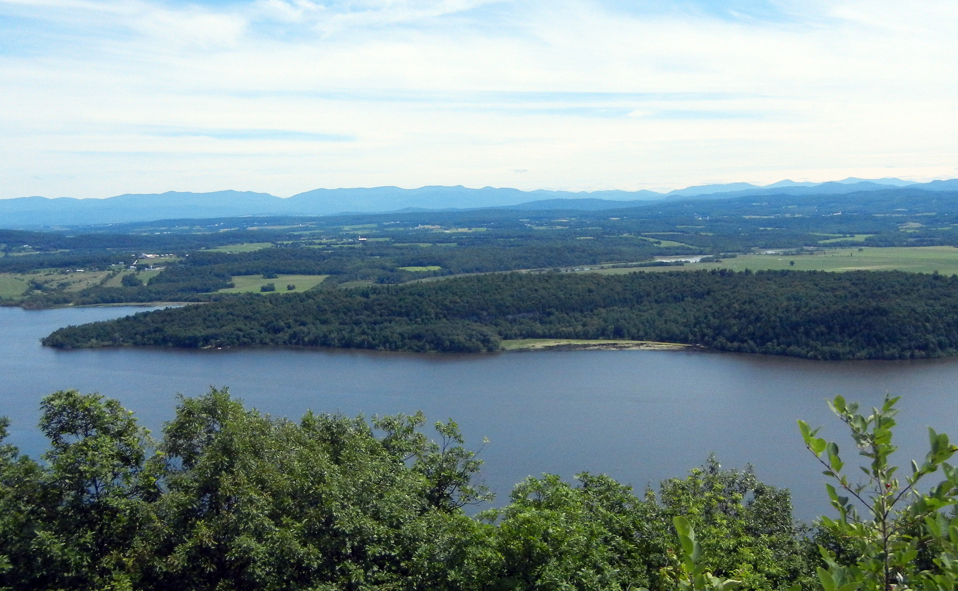 A view of Mount Independence, Orwell, Vermont, taken from Mount Defiance.